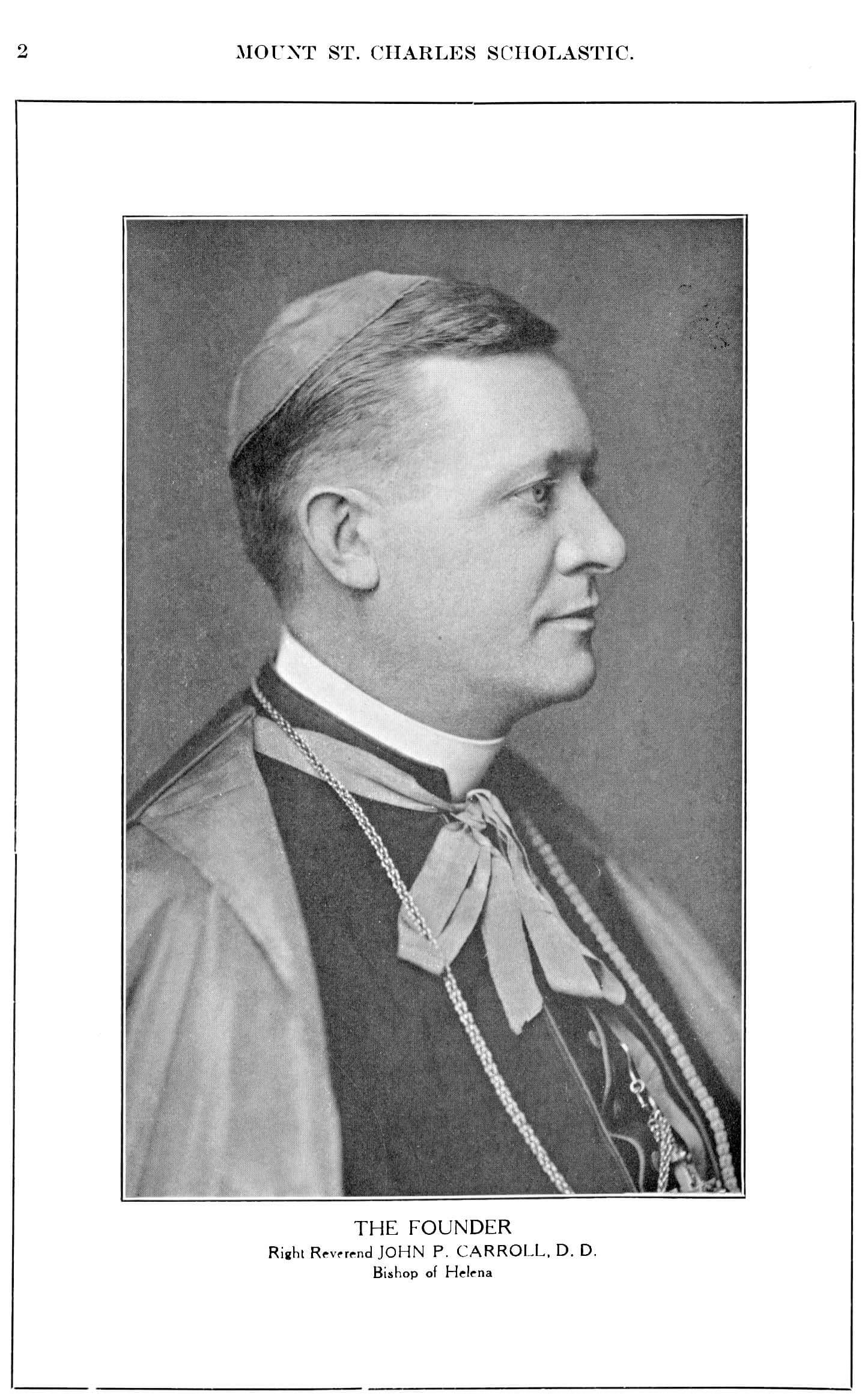 Photographic portrait of John P. Carroll, founder of Mount St. Charles College which is now Carroll College in Helena, Montana, U.S., as published on July 1, 1912 in Mount Saint Charles Scholastic quarterly of the college.